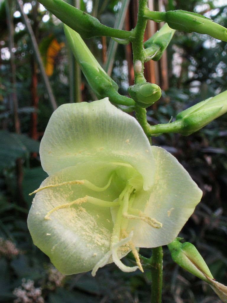 Pitcairnia loki-schmidtiae type plant in cultivation at the Botanical Garden of Heidelberg, Germany.